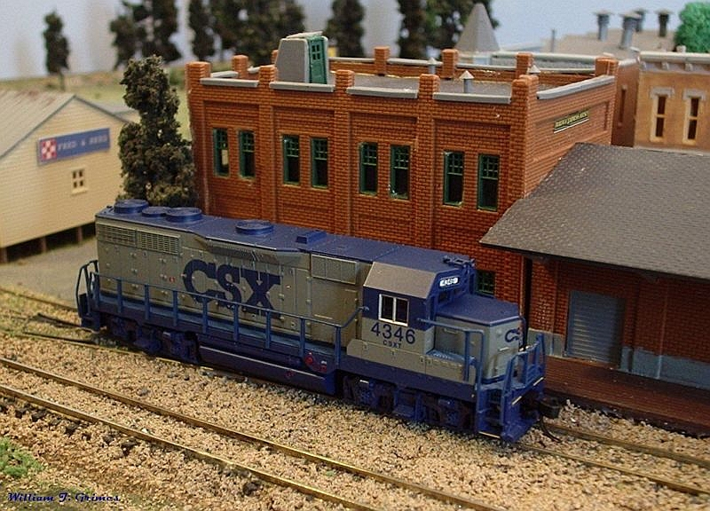 Model of the CSXT4346.